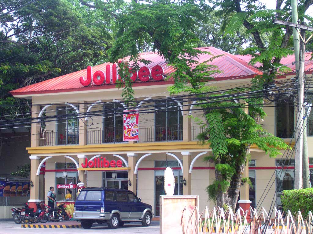 A Jollibee restaurant along Dumaguete North Road in Dumaguete City.